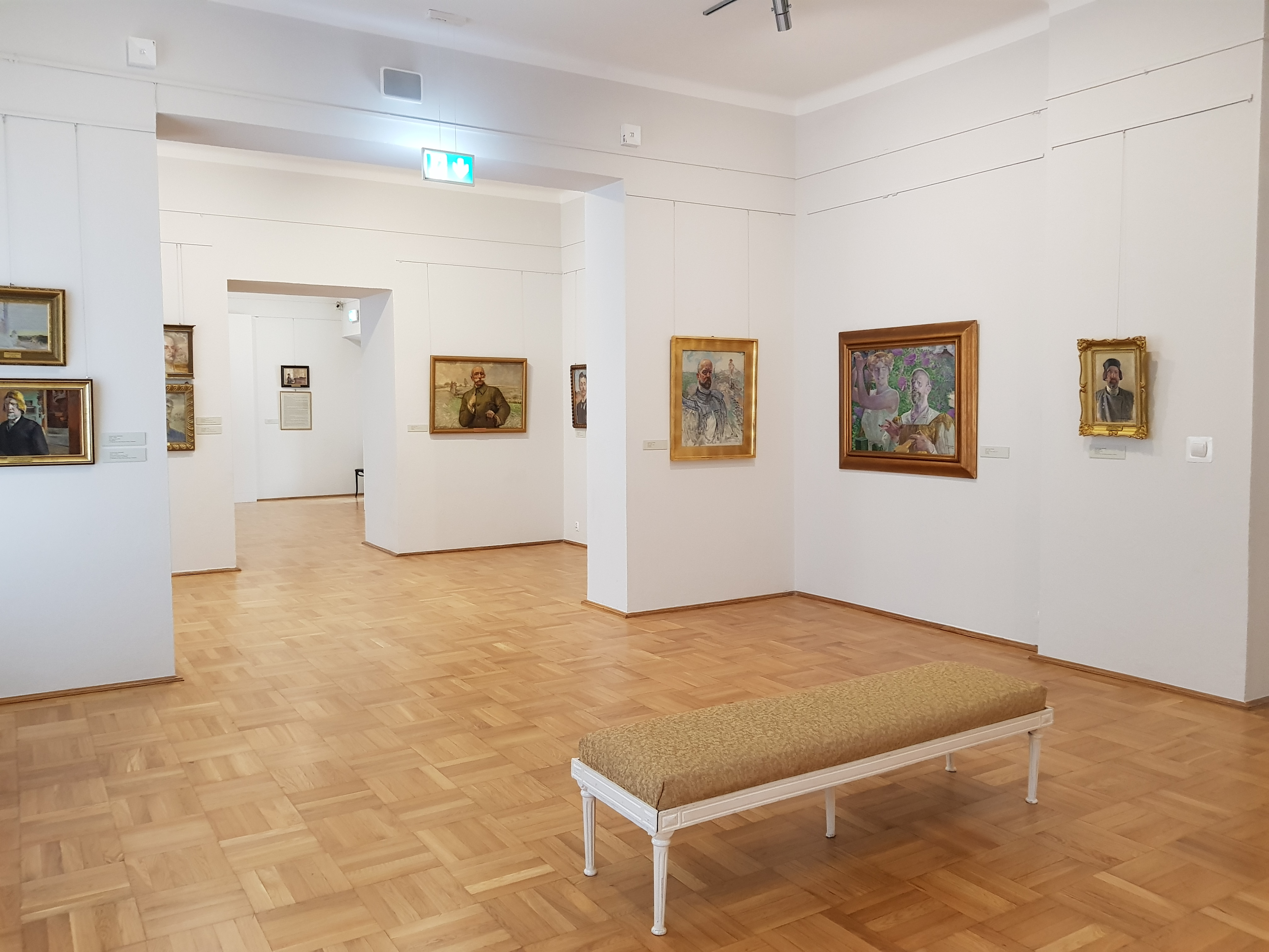 Collection of Jacek Malczewski Paintings, Jacek Malczewski Museum in Radom, Poland